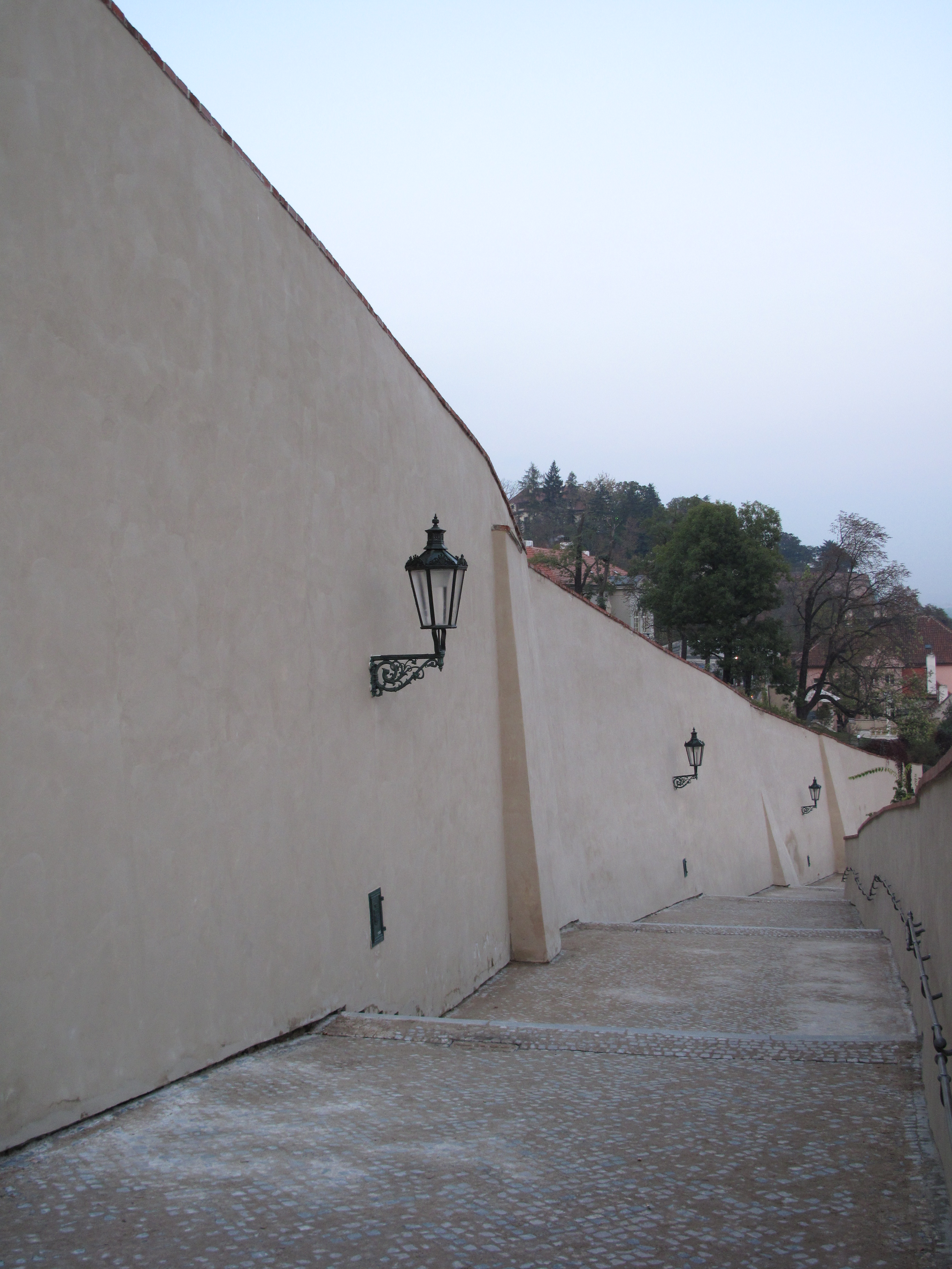 Old Casttle Steps after restoration in summer 2009, Prague, Czech Republic.